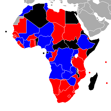 2016 African Nations Championship qualification Qualified Country may qualify Did not qualify Did not enter, disqualified or withdrew